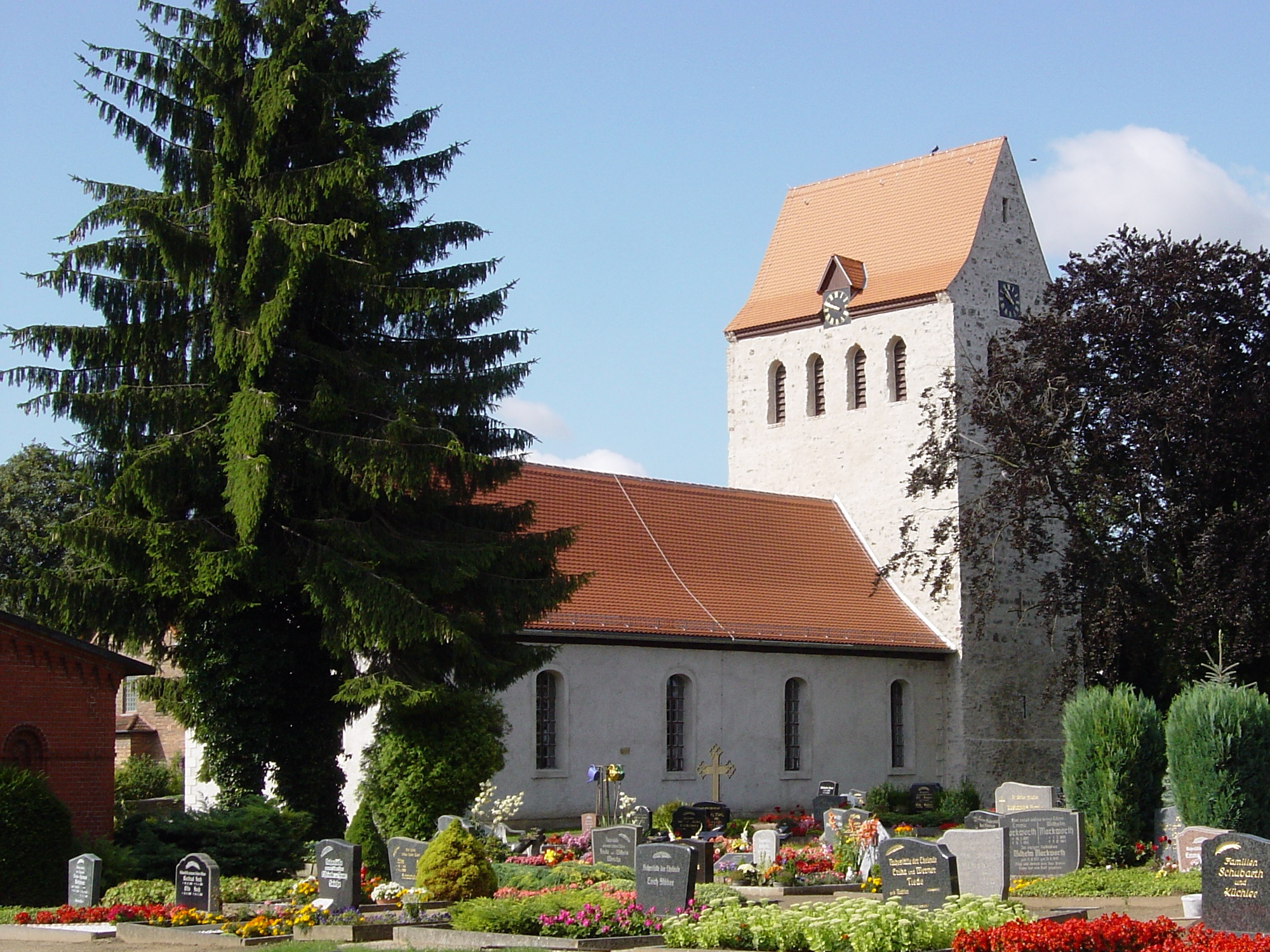 Protestant church in Groß Santersleben, Germany